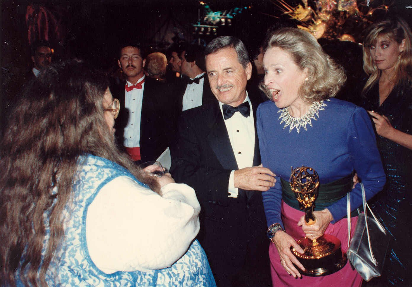 William Daniels & Bonnie Bartlett, 39th Emmy Awards - Governor's Ball - Stars of St. Elsewhere - Sept. 1987